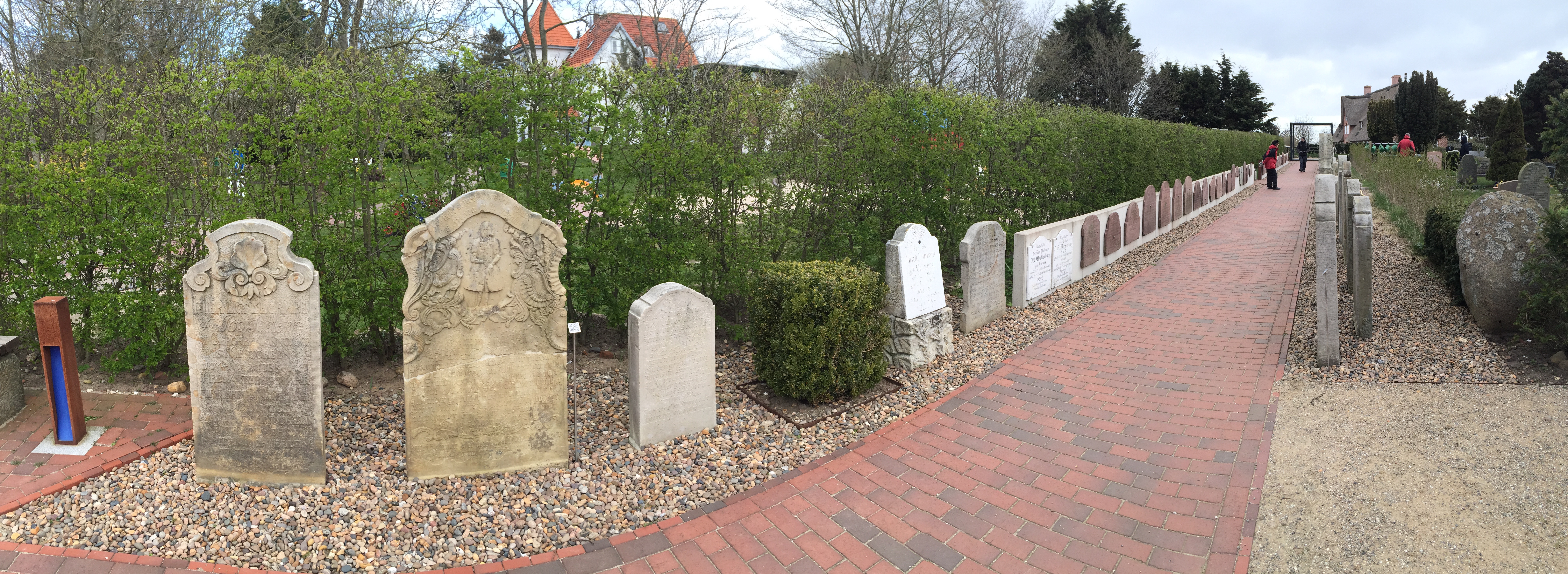 The making of this document was supported by the Community-Budget of Wikimedia Germany. Gravestones in Amrum